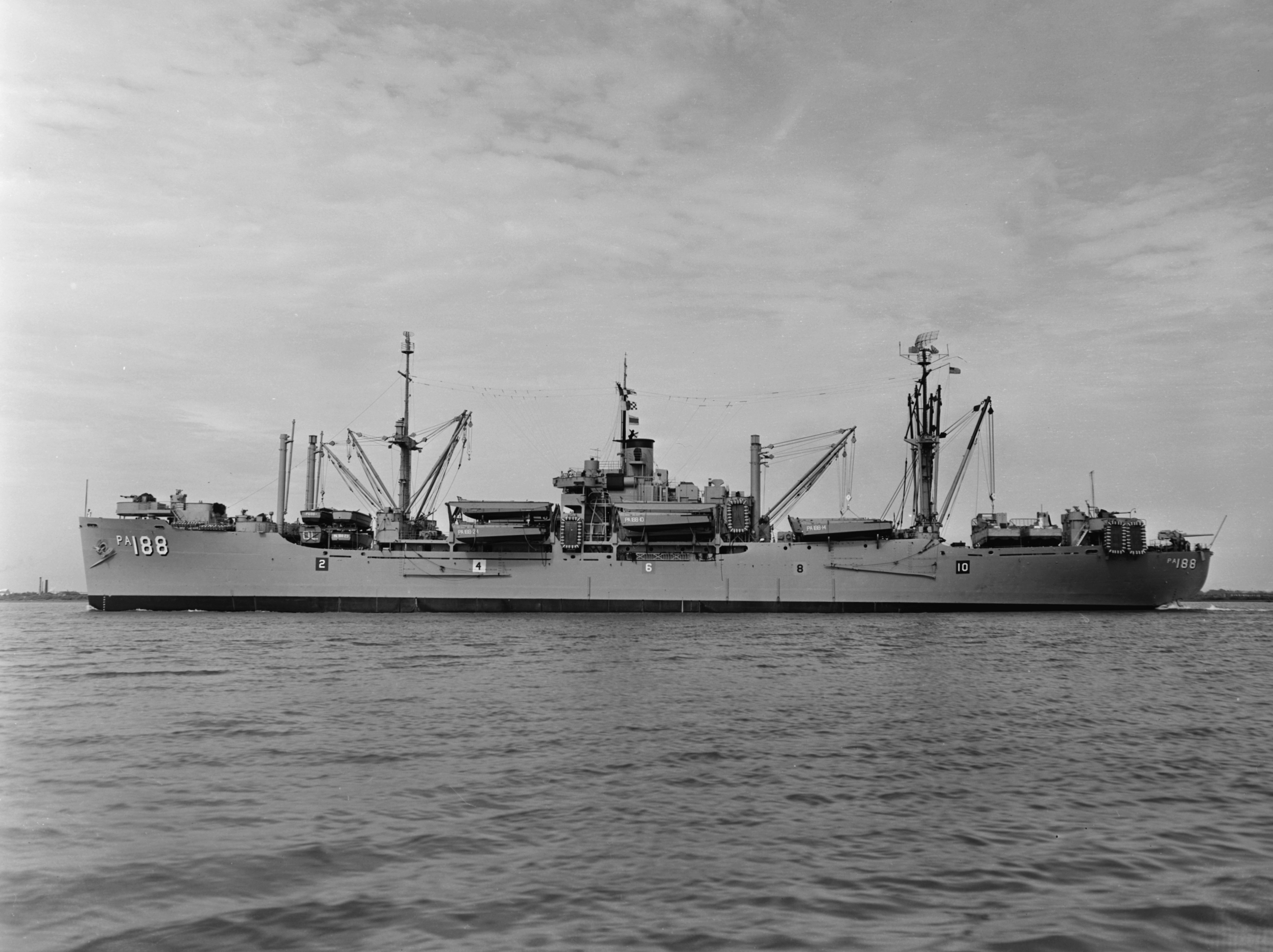 The U.S. Navy attack transport USS Olmsted (APA-188) underway on 3 June 1954.